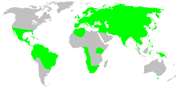 Mysmenidae habitat distribution, drawn after Platnick: World Spider Catalog 7.0. This is not a precise rendering of the distribution! If you have better information, please replace this map, or send me the info, and i will redraw it.